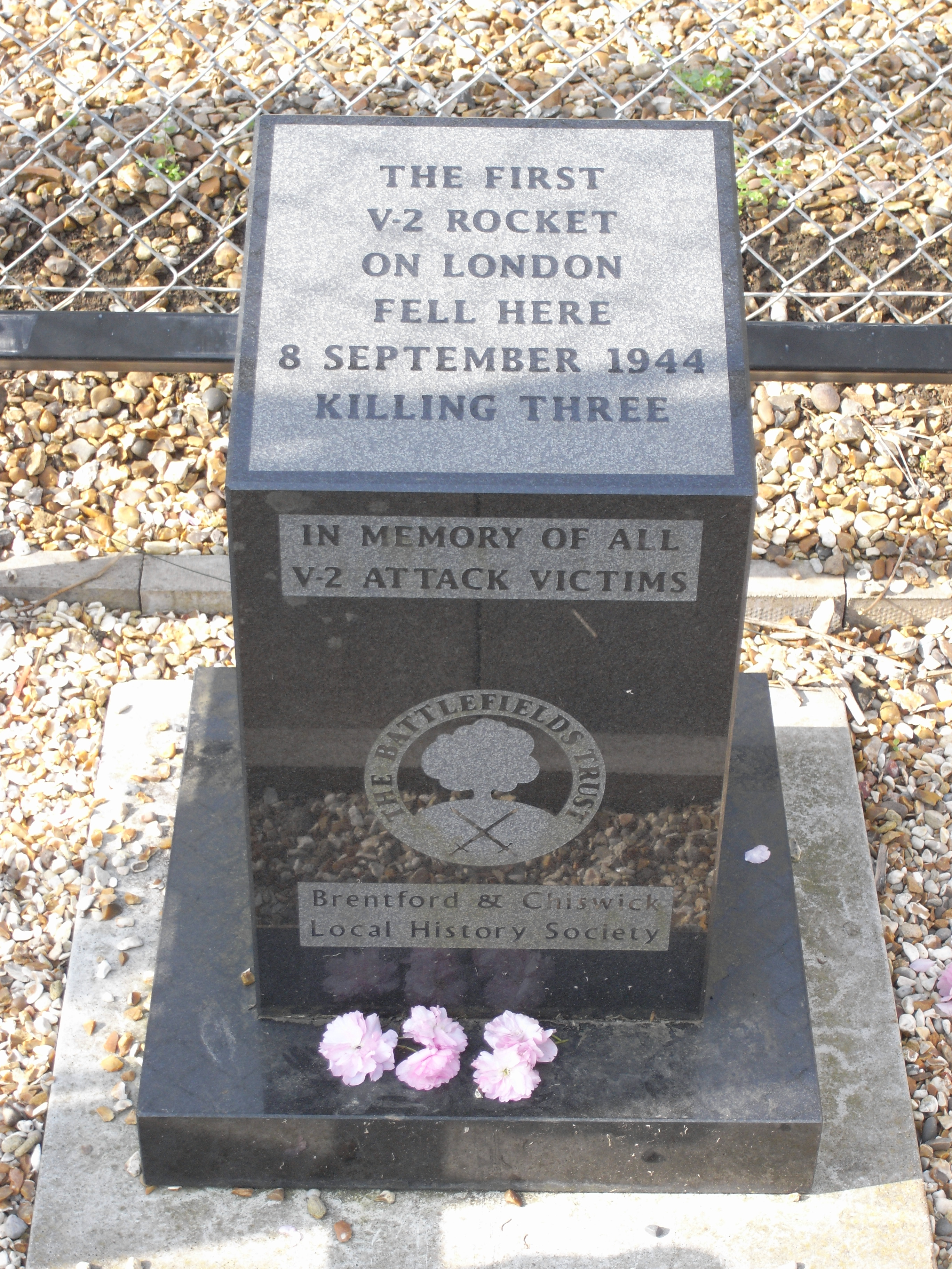 Memorial on the site of the first V-2 rocket to land on London during the Second World War. It is located in Staveley Road, Chiswick, W4.